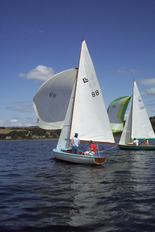 "Bora", Loch Long One Design No.88. Built on the shore of Loch Long, Scotland. This picture taken during Cove Sailing Club's 'Rockingham Cup' Trophy Race, 2004.